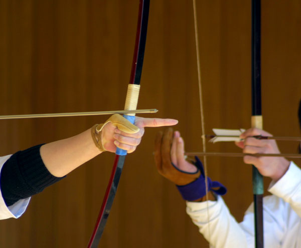 Kyudoka with an oshidegake, a bow-arm glove. Taken in the Kanto area of Japan.